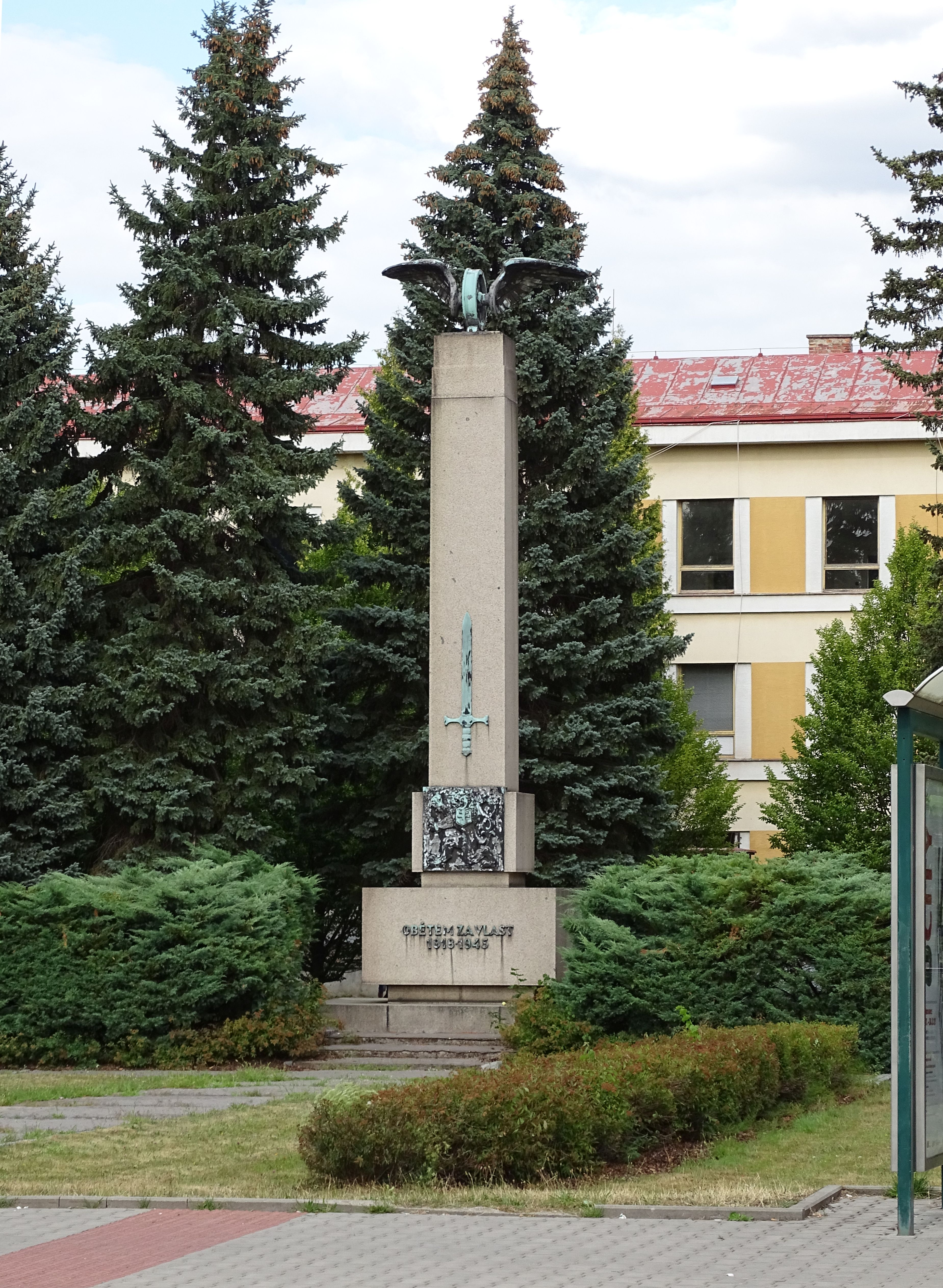 Pardubice V-Zelené Předměstí, Pardubice District, Pardubice Region, Czech Republic. Zborovské náměstí, a monument to liberation.